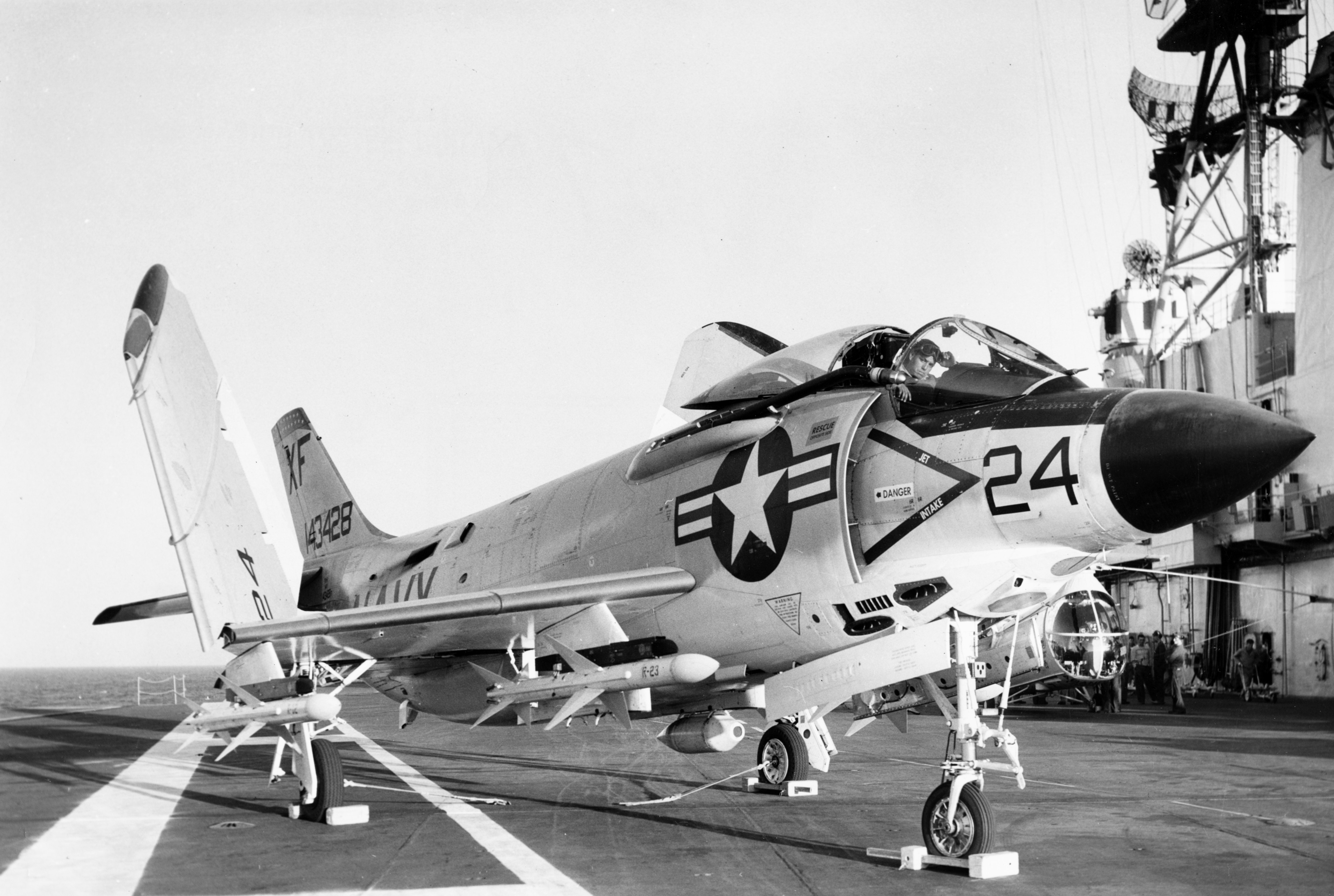 A McDonnell F3H-2 Demon fighter (BuNo 143428) of experimental squadron VX-4 on the aircraft carrier USS Midway (CVA-41) in 1957. the aircraft is armed with AIM-7 Sparrow missiles.